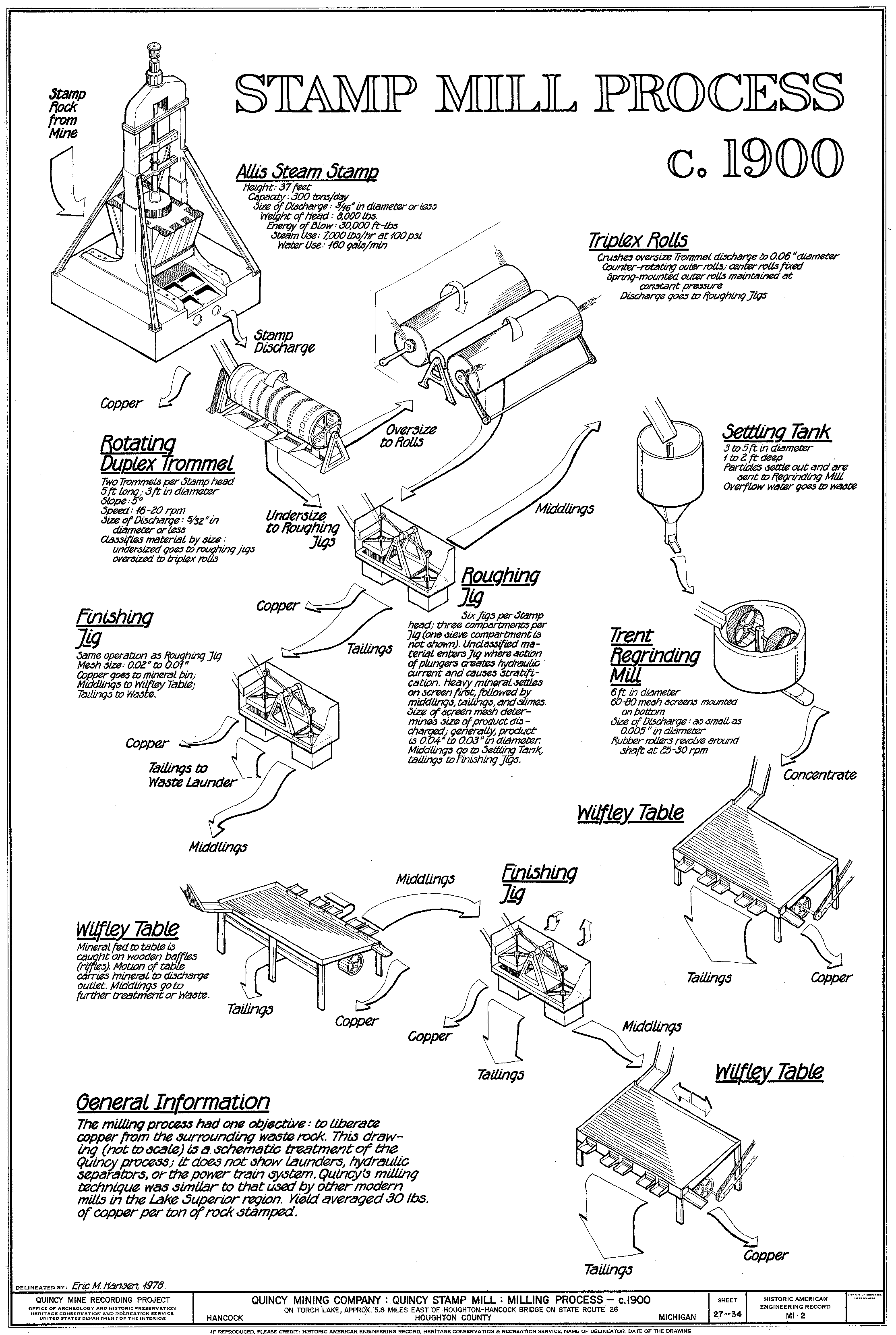 From the Library of Congress HAER collection, diagram delineated by Eric M Hansen, 1978, as part of the HISTORIC AMERICAN ENGINEERING RECORD, HERITAGE CONSERVATION & RECREATION SERVICE, Image shows schematic unit operations process for extracting Copper Ore from poor rock, and is Drawing #27 from the Quincy Mine collection: . Work of the US Government, in public domain. Converted from .TIF to .PNG, slightly cropped by uploader User:Lar and reduced to 1/2 original size.